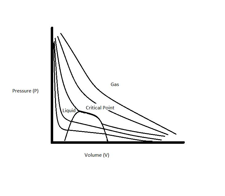 The critical point in relationship with pressure, volume, and temperature.